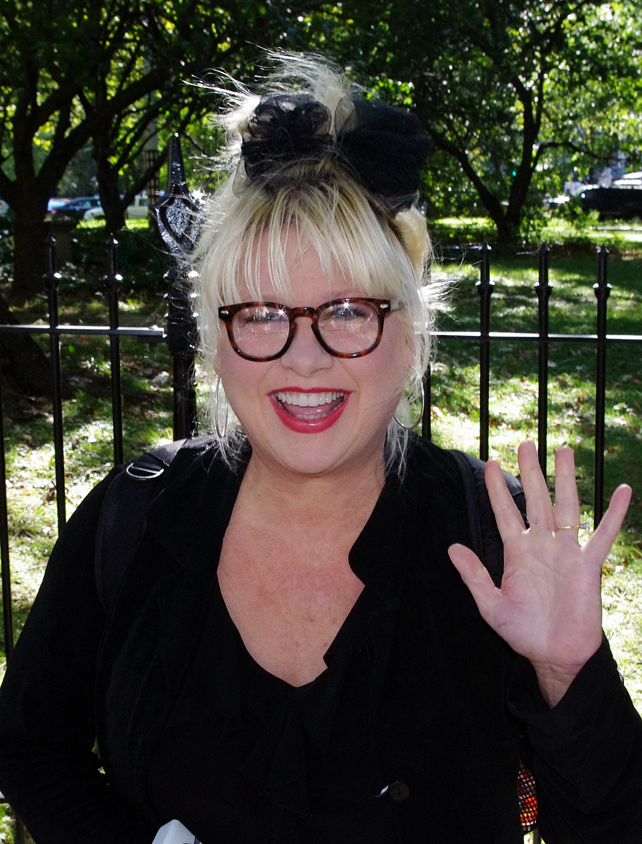 Actress and comedian Victoria Jackson at Occupy Wall Street on Day 19